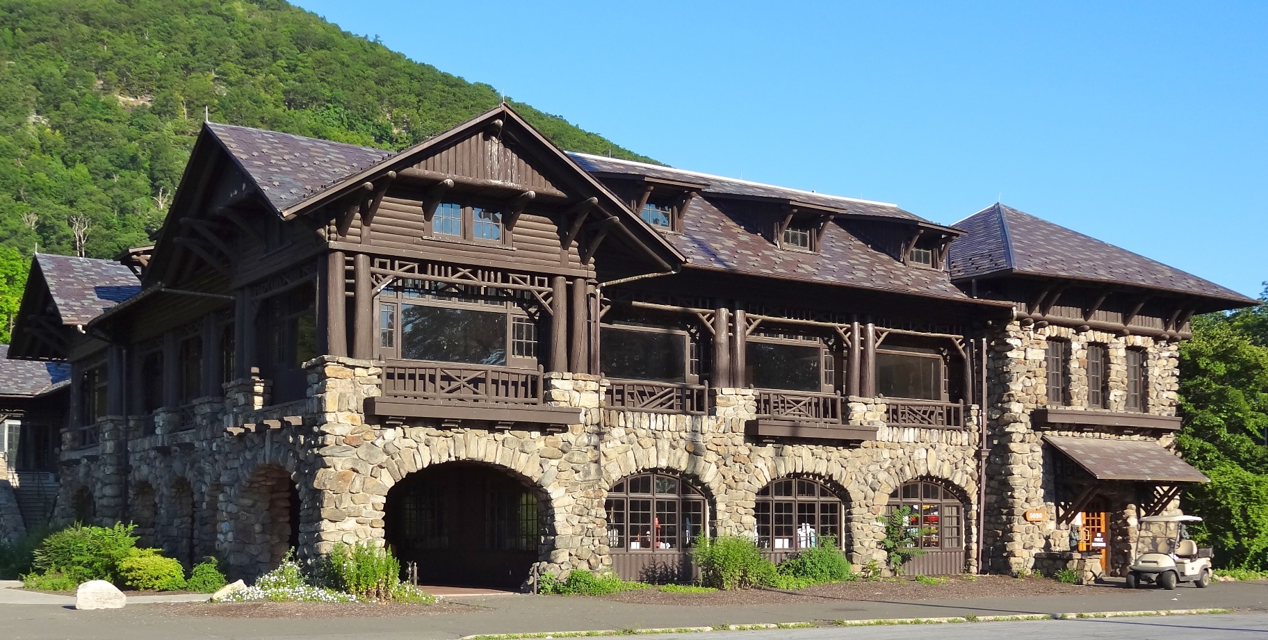 Bear Mountain Inn after the latest renovation was completed. Located in Bear Mountain State Park.